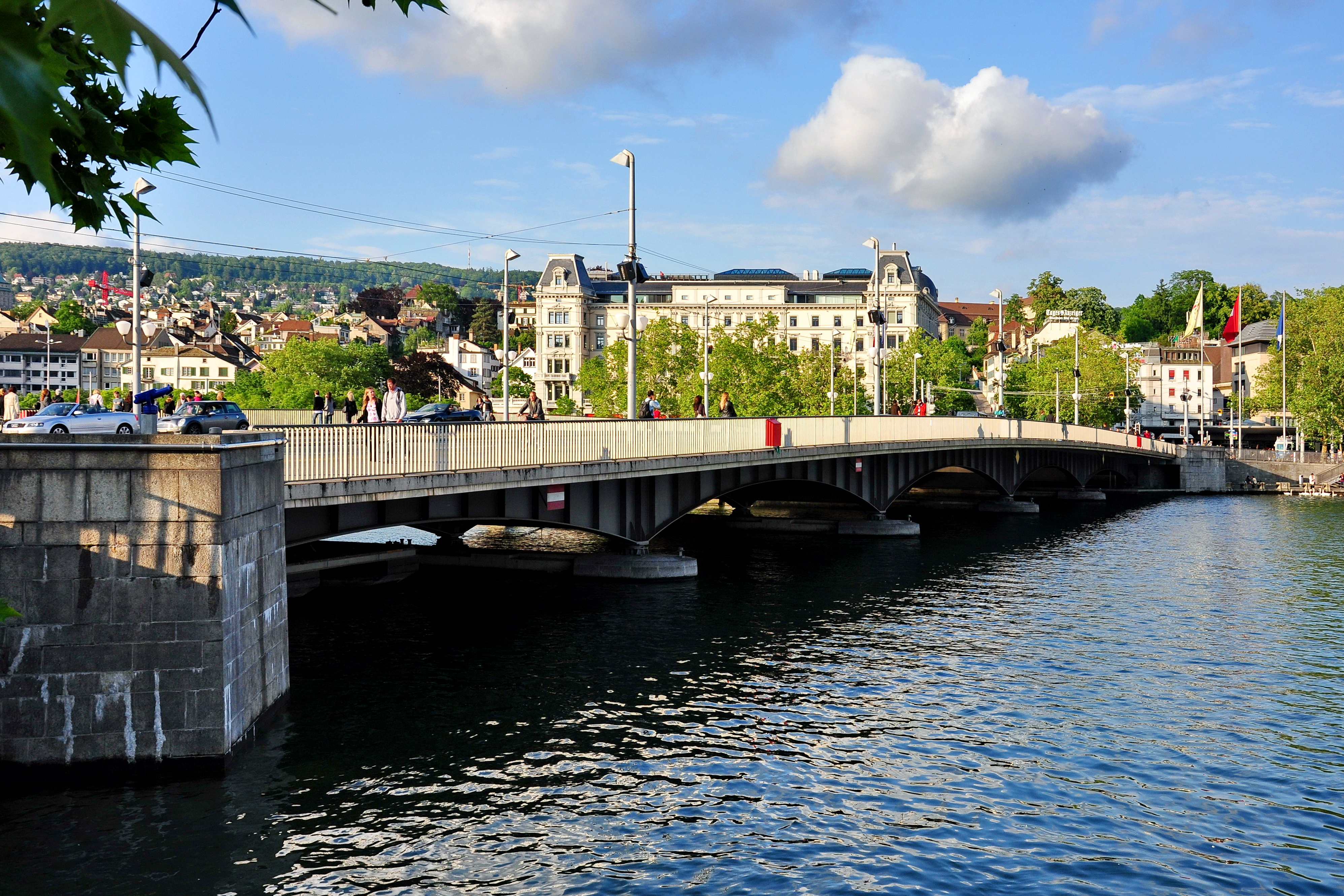 Quaibrücke in Zürich (Switzerland), as seen from Alpenquai nearby ZSG landing gate at Bürkliplatz, Haus Bellevue in the background.